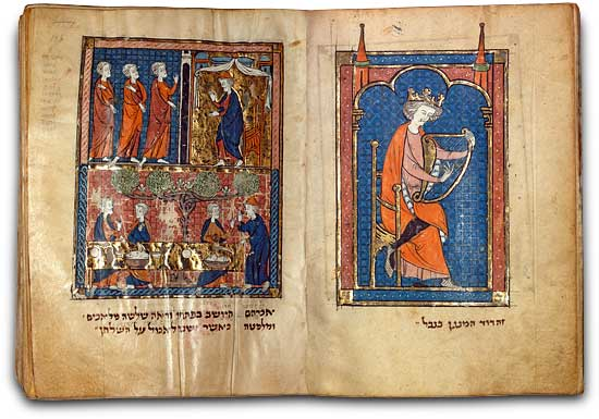 Folios 117b-118a of the North French Hebrew Miscellany manuscript. - In fol 117b King David is characterized by his golden crown and his cloak trimmed with blue-and-white vair fur. He is playing the harp. In fol 118a Abraham, wearing a pointed hat, stands under a canopy within a house, corresponding to the biblical text: 'and he sat in the tent door...' (Gen.18:1) 'and lifted his eyes and looked... three men stood by him' (Gen 18:2). The lower scene progresses to verse 8: 'and he stood by them under the tree and they did eat'.